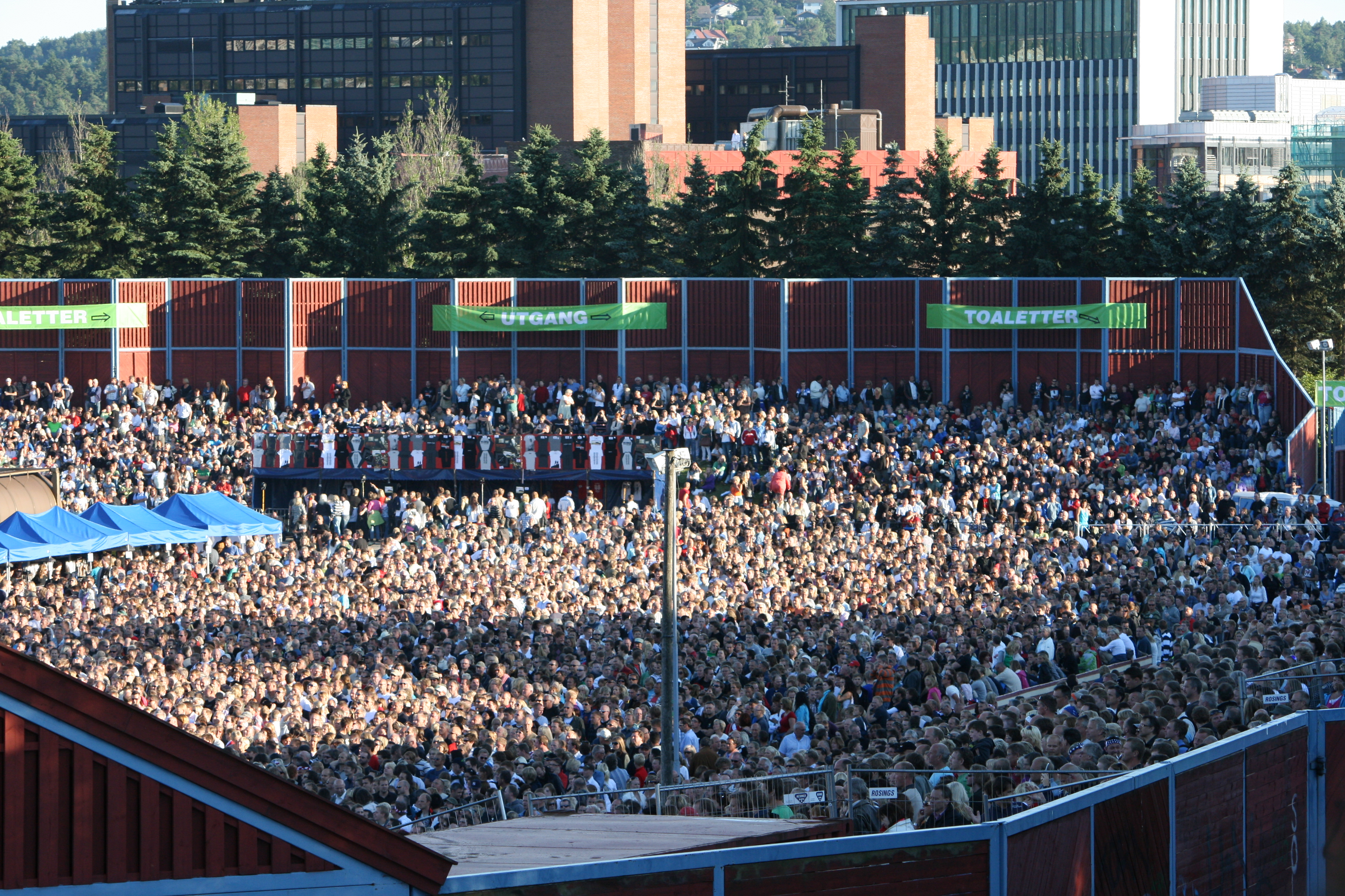 Crowd during a Bruce Springsteen concert. Oslo, Norway.